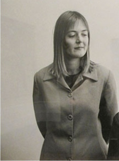 Jann Turner with Eugene de Kock, TRC Headquarters, 1997